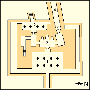 A depiction of the layout of Nyuserre's valley temple. In order: (1) Colonnaded main entrance with eight granite columns; (2) Secondary entrance with four granite columns; (3) Central chamber with niches purported to hold statues; (4) Causeway with (5) limestone figures of captive enemies. Based on Wilkinson, Richard (2000) The complete temples of ancient Egypt, New York: Thames & Hudson, p. 123